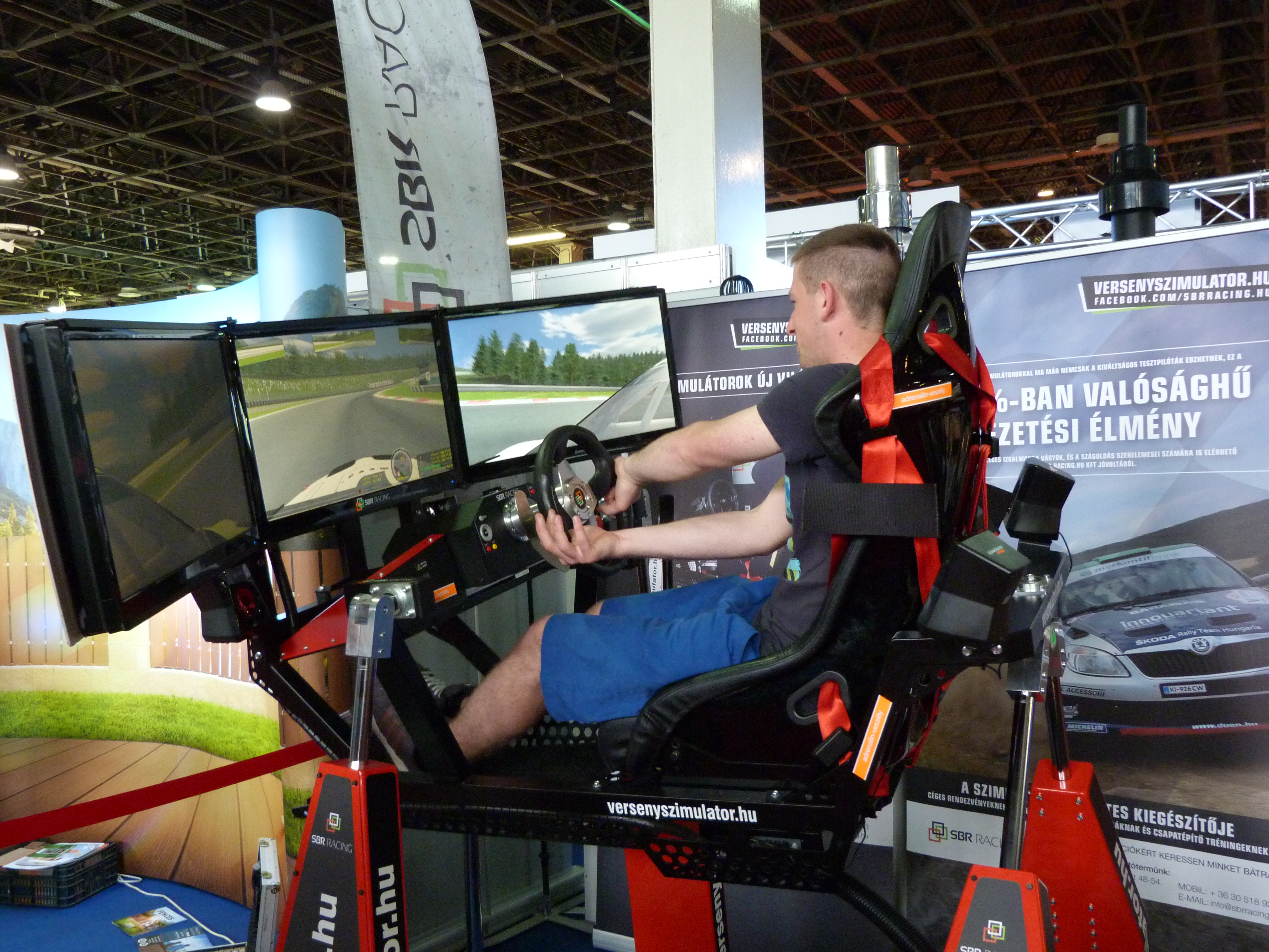 Live on the 17th of April, 2015. Construma Exibition. Car racing simulator in action. SBR Racing. Sources: versenyszimulator.hu ©© Derzsi Elekes Andor, Budapest, 2015, Published in the Metapolisz DVD line. You are authorised to use this photo under Creative Commons – even for commercial, for profit purposes. The photo must be attributed to Derzsi Elekes Andor. All of the photos and vids in the Metapolisz DVD line are under Creative Commons and can be used even for commercial – for profit – purposes. Recommended Citation Derzsi Elekes Andor: Metapolisz DVD line